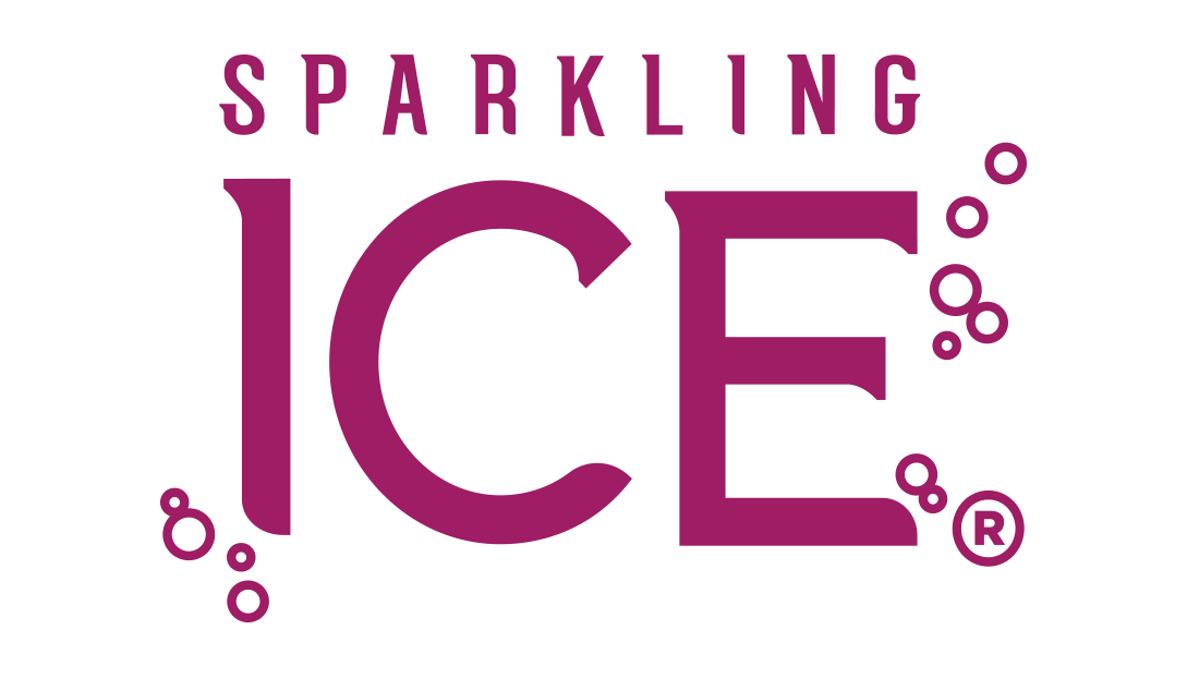 Logo of Sparkling ICE